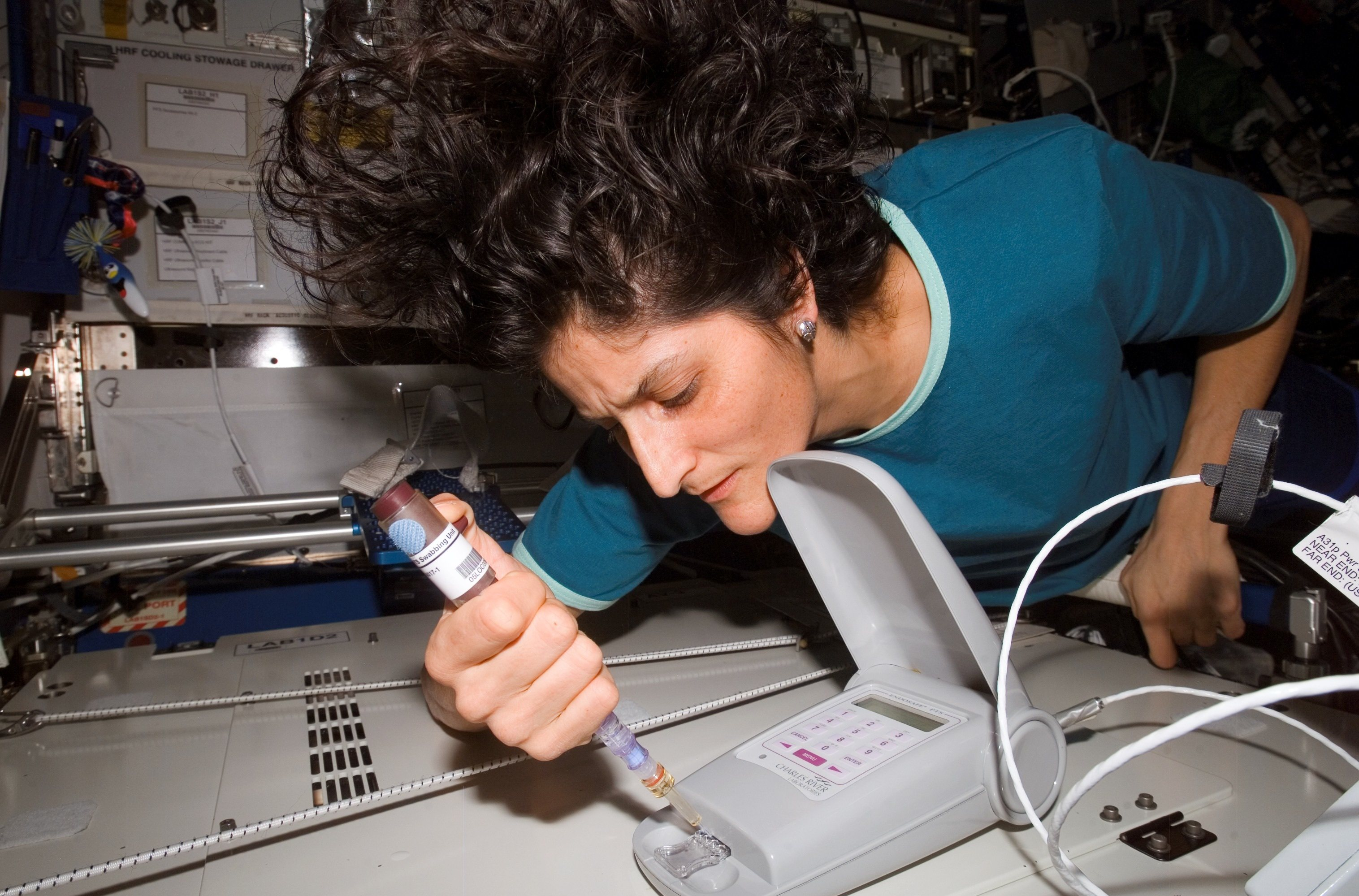 Astronaut Sunita L. Williams, Expedition 14 flight engineer, works with the Lab-on-a-Chip Application Development-Portable Test System (LOCAD-PTS) experiment in the Destiny laboratory of the International Space Station. LOCAD-PTS is a handheld device for rapid detection of biological and chemical substances onboard the station.